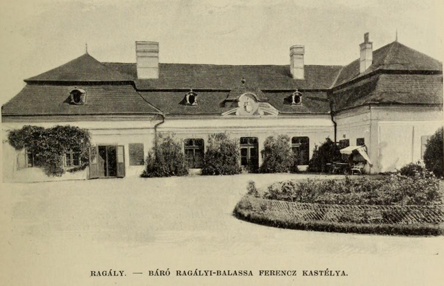 Castle in Ragály